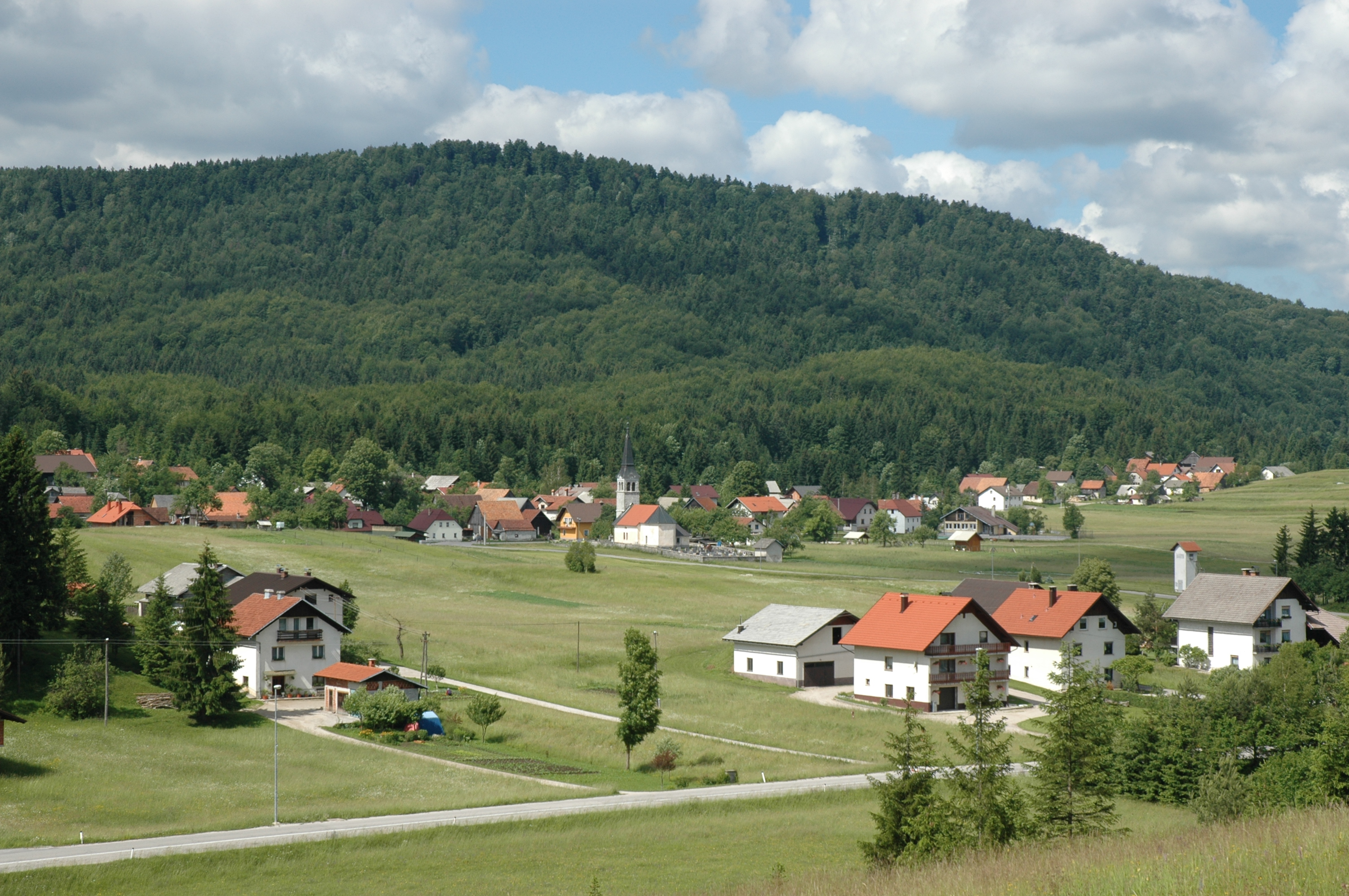 A view of the south-eastern part of Babno Polje village, Slovenia